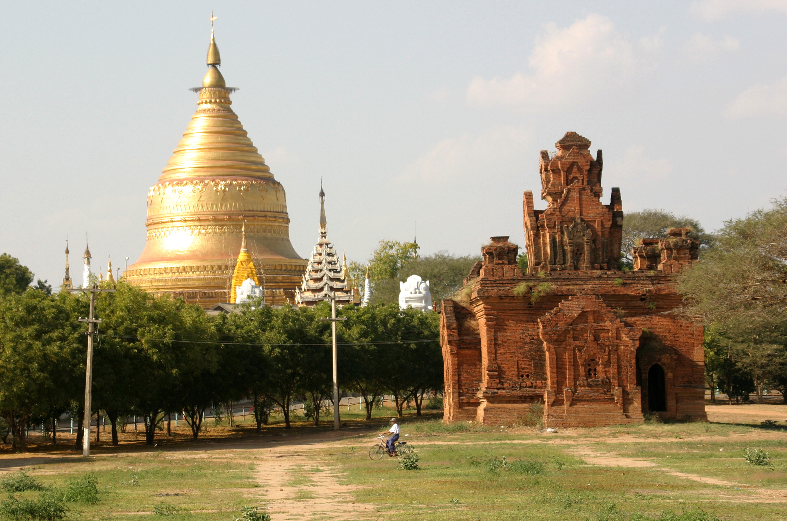 Shwezigon pagoda, Bagan, Myanmar.